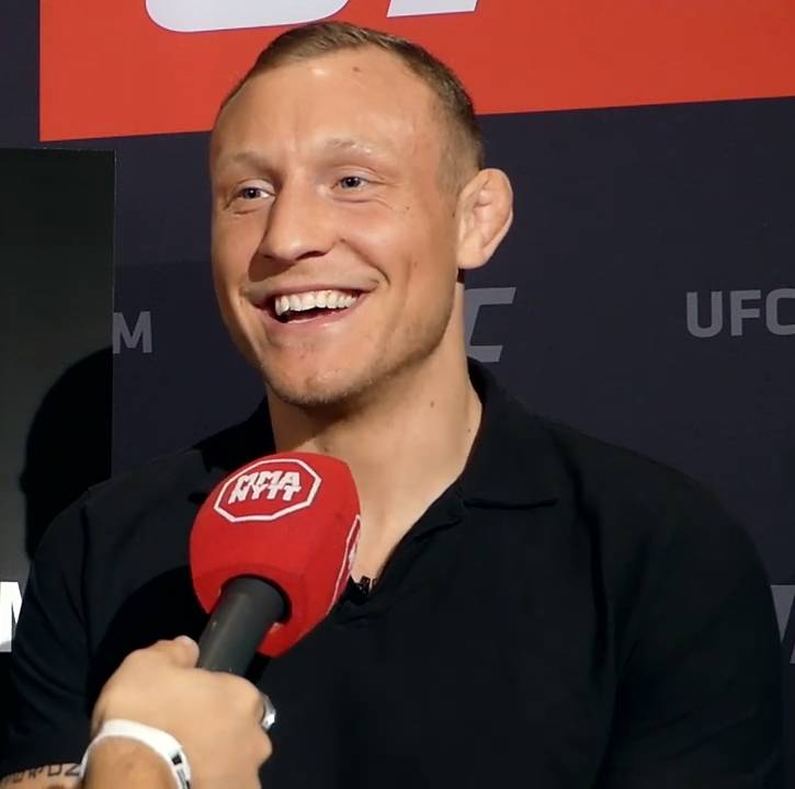 MMAnytt Focus - Jack Hermansson Ep. 5 "A real warrior"